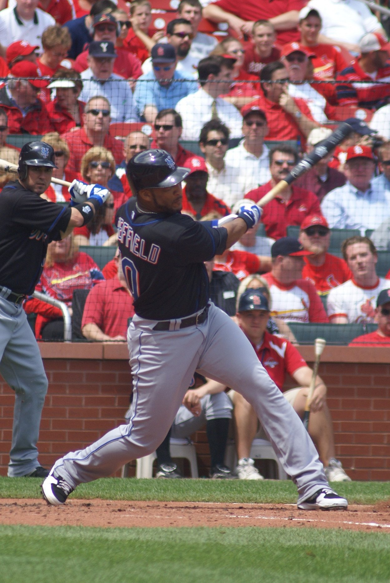 Gary Sheffield